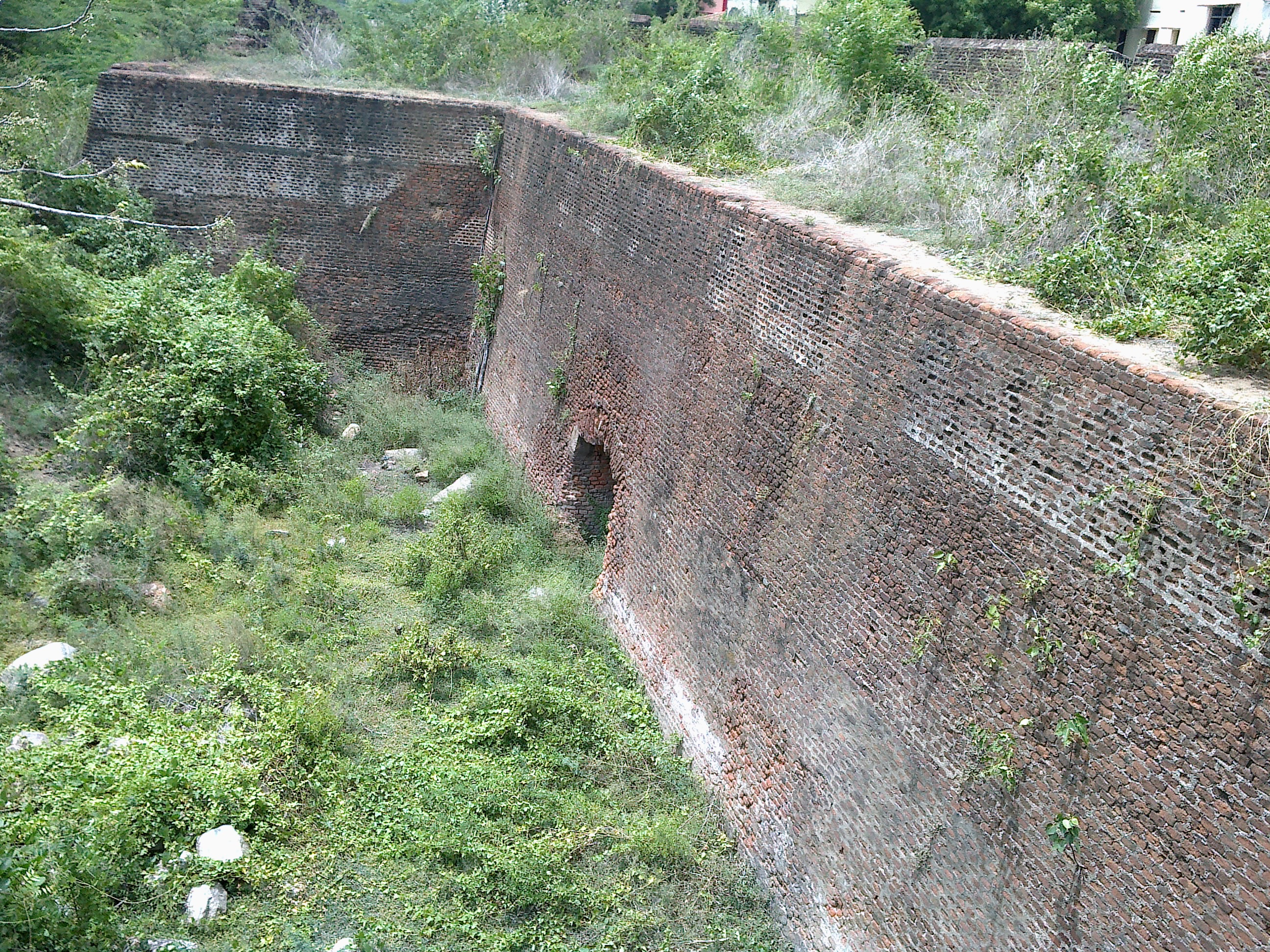 It's an one part of the Fort - Vandavasi